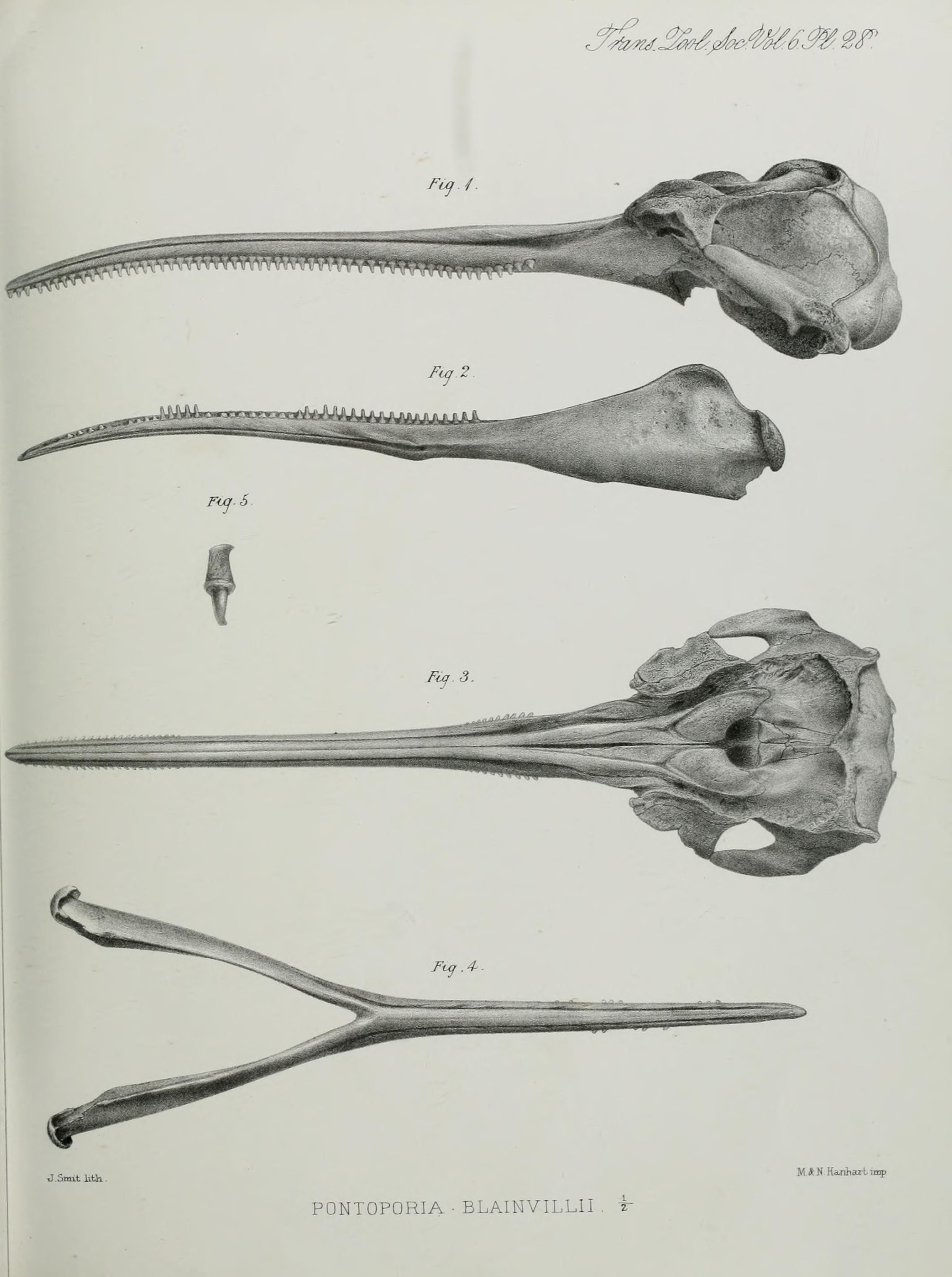 ?^' f Faj 3. J.Snat lith.. M *N Hajitiarl imp PONTOPORIA ■ BLAINVILLII , 2